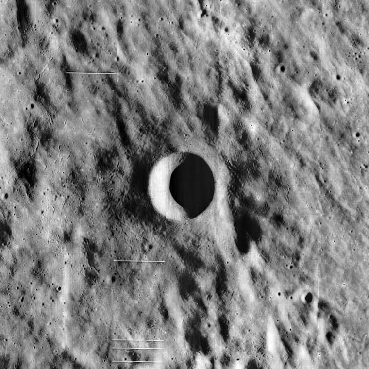 The dark-halo crater Copernicus H, located southeast of Copernicus on the moon. The Lunar Orbiter 5 image was targeted to investigate this crater specifically. Horizontal white lines are artifacts of original image.